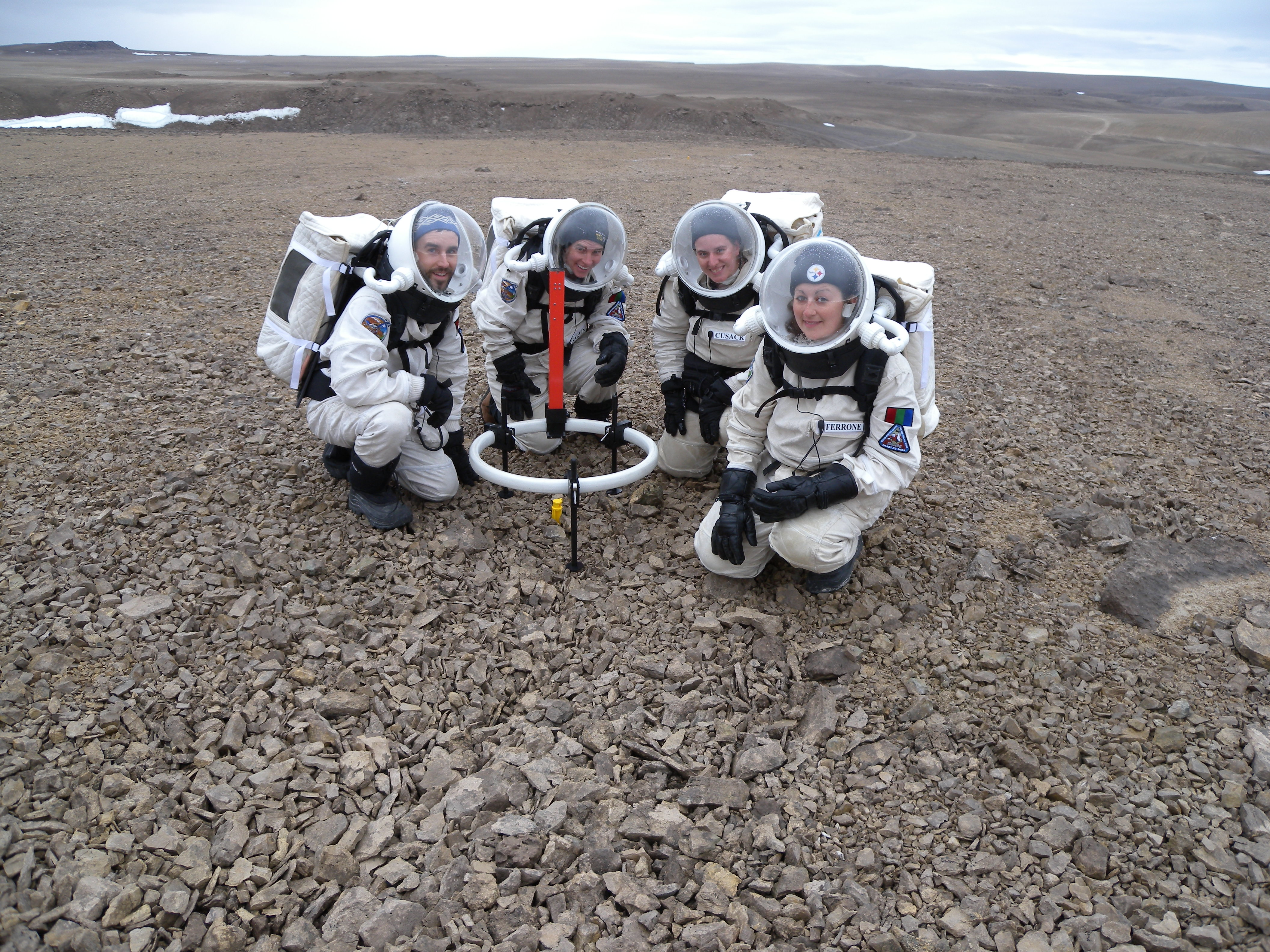 FMARS 2009 crew members Brian Shiro, Christy Garvin, Stacy Cusack and Kristine Ferrone deploy the TEM47-PROTEM low frequency electromagnetic survey equipment on Haynes Ridge during EVA 8. This was in close proximity to the Flashline Mars Arctic Research Station (FMARS) on Devon Island, Nunavut, Canada. Image taken by Joseph E. Palaia, IV on 7/19/2009 during the 2009 FMARS expedition.